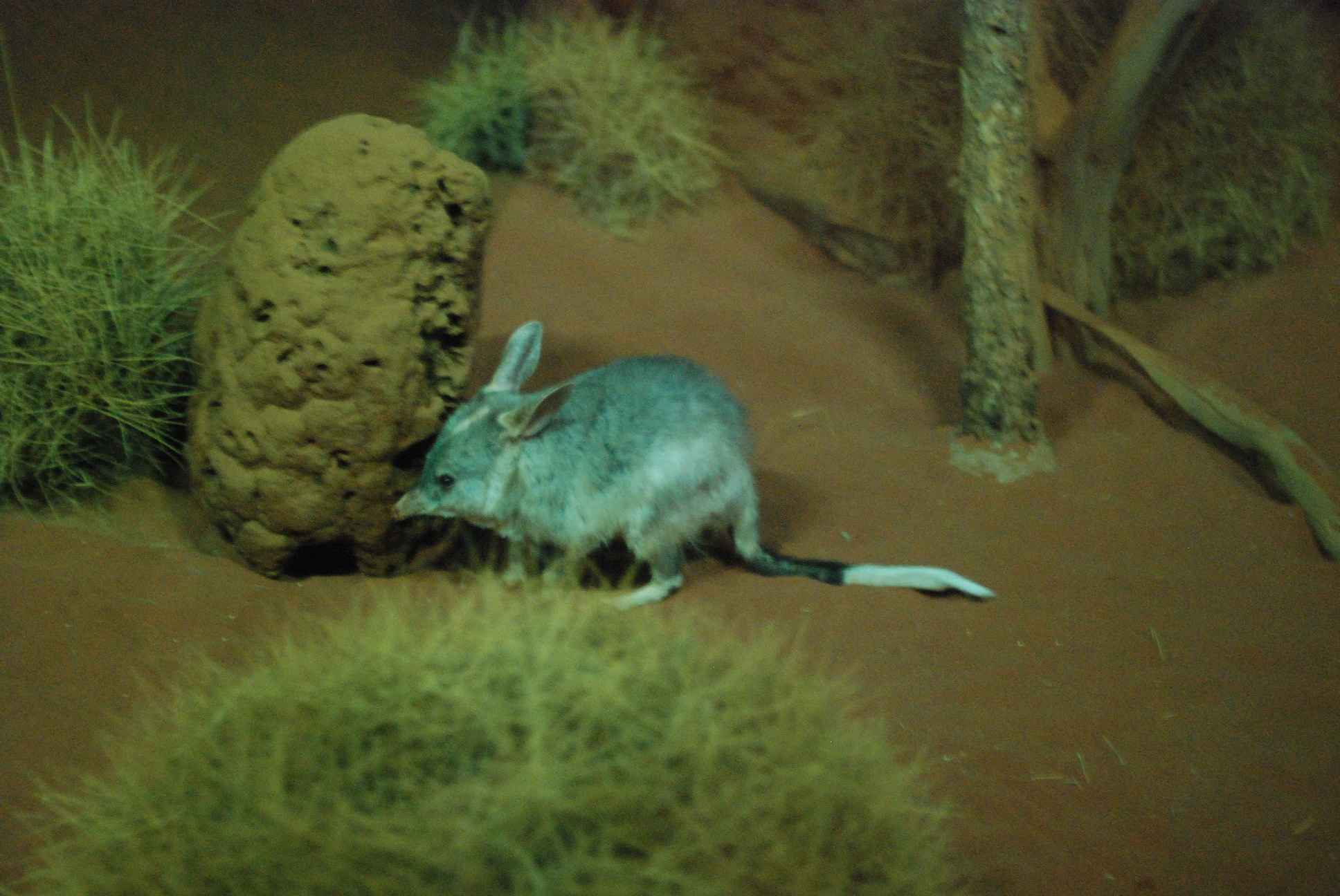 Bilby at Alice Springs Desert Park Nocturnal House